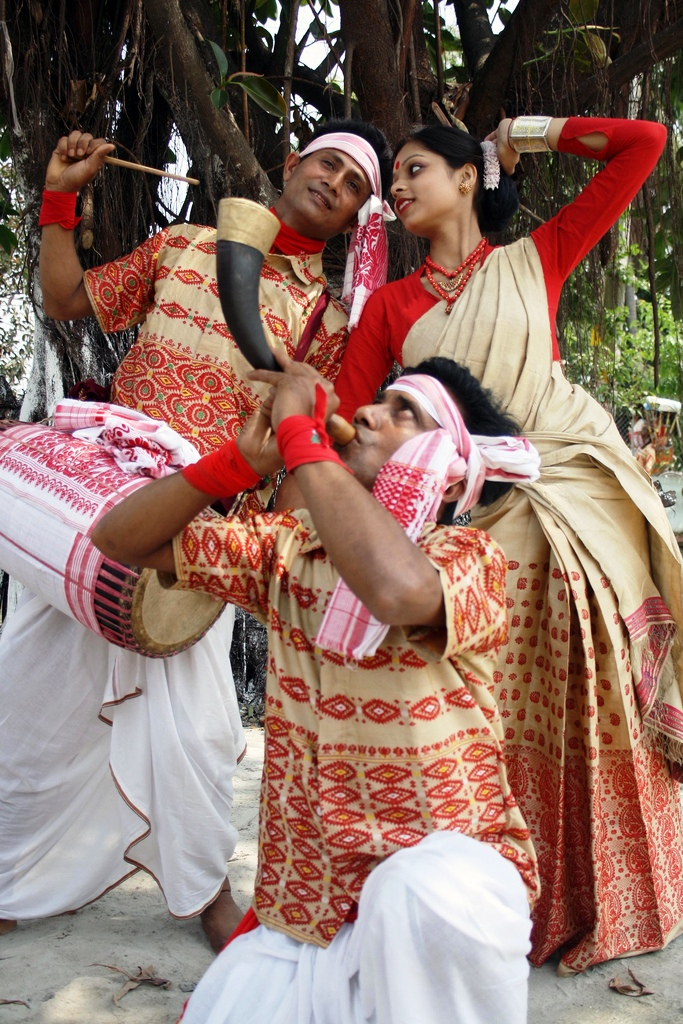 Bihu dance at Nagaon, Assam, India.